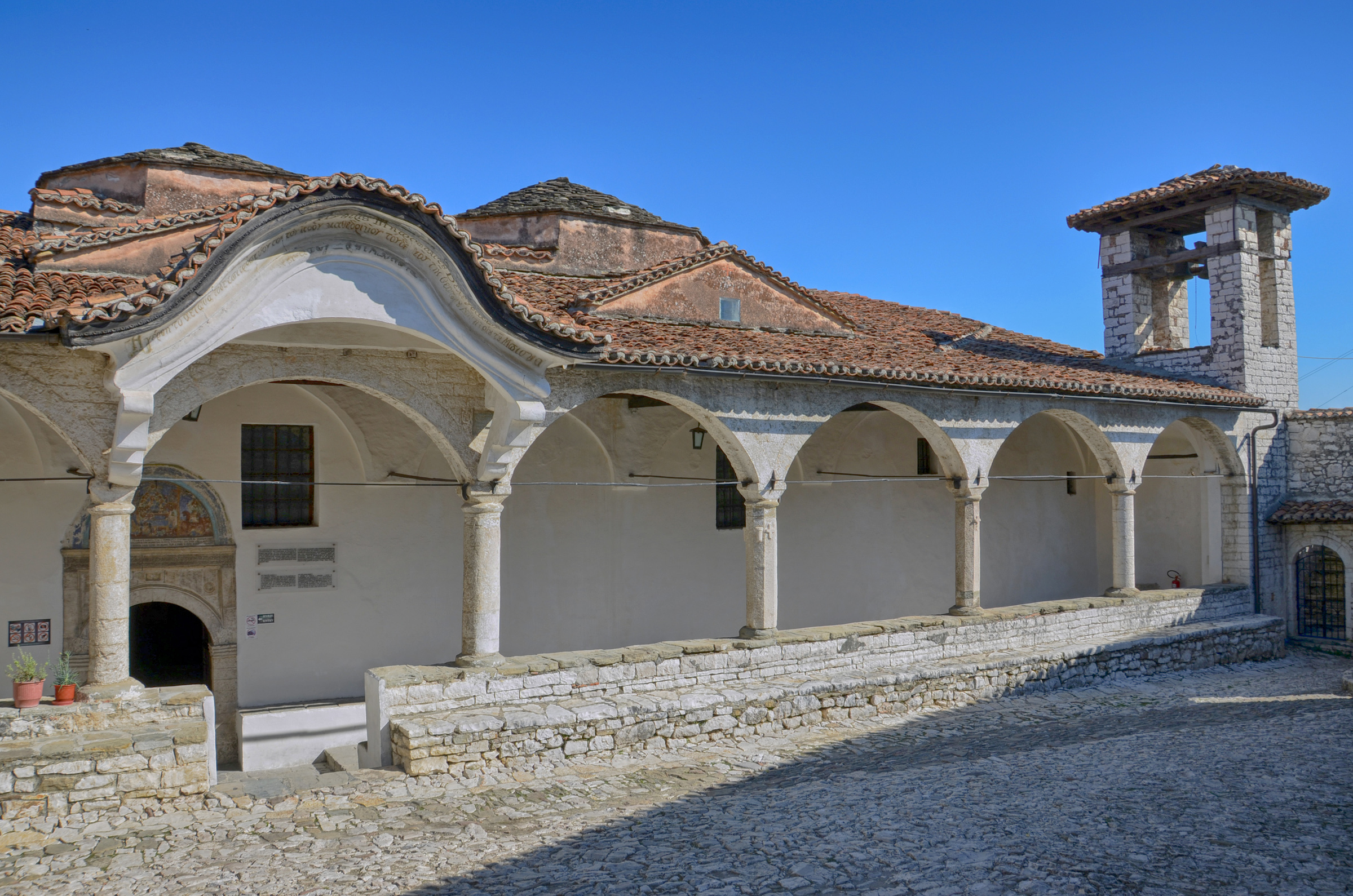 Cathedral of Assumption of St Mary in Berat